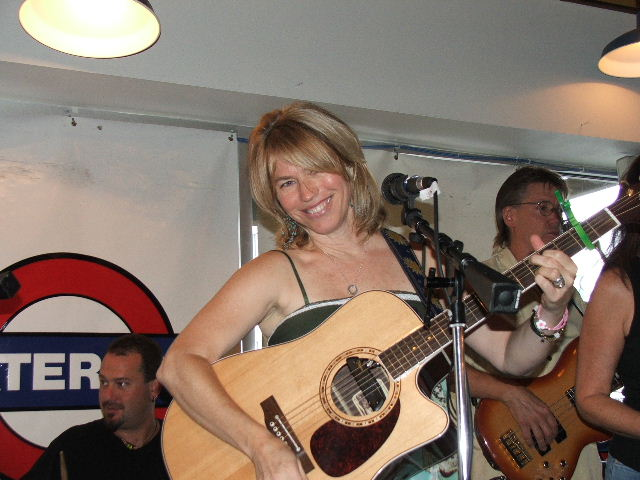 Sara Hickman performing at Waterloo Records (2006). Photo by Ron Baker.